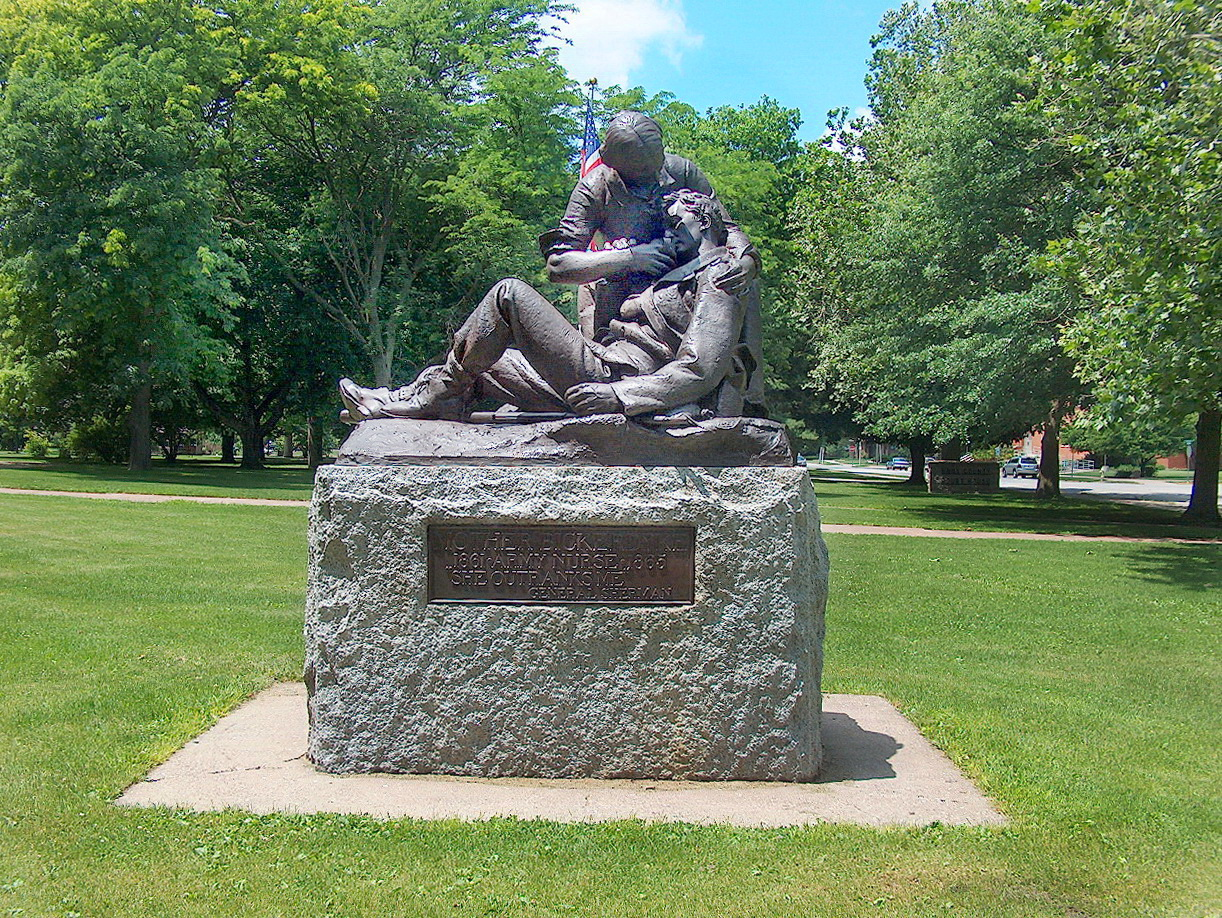 Photo of a memorial statue depicting Mary Ann "Mother" Bickerdyke taking care of a wounded soldier. Memorial located at the Knox County Court House in Galesburg, IL.